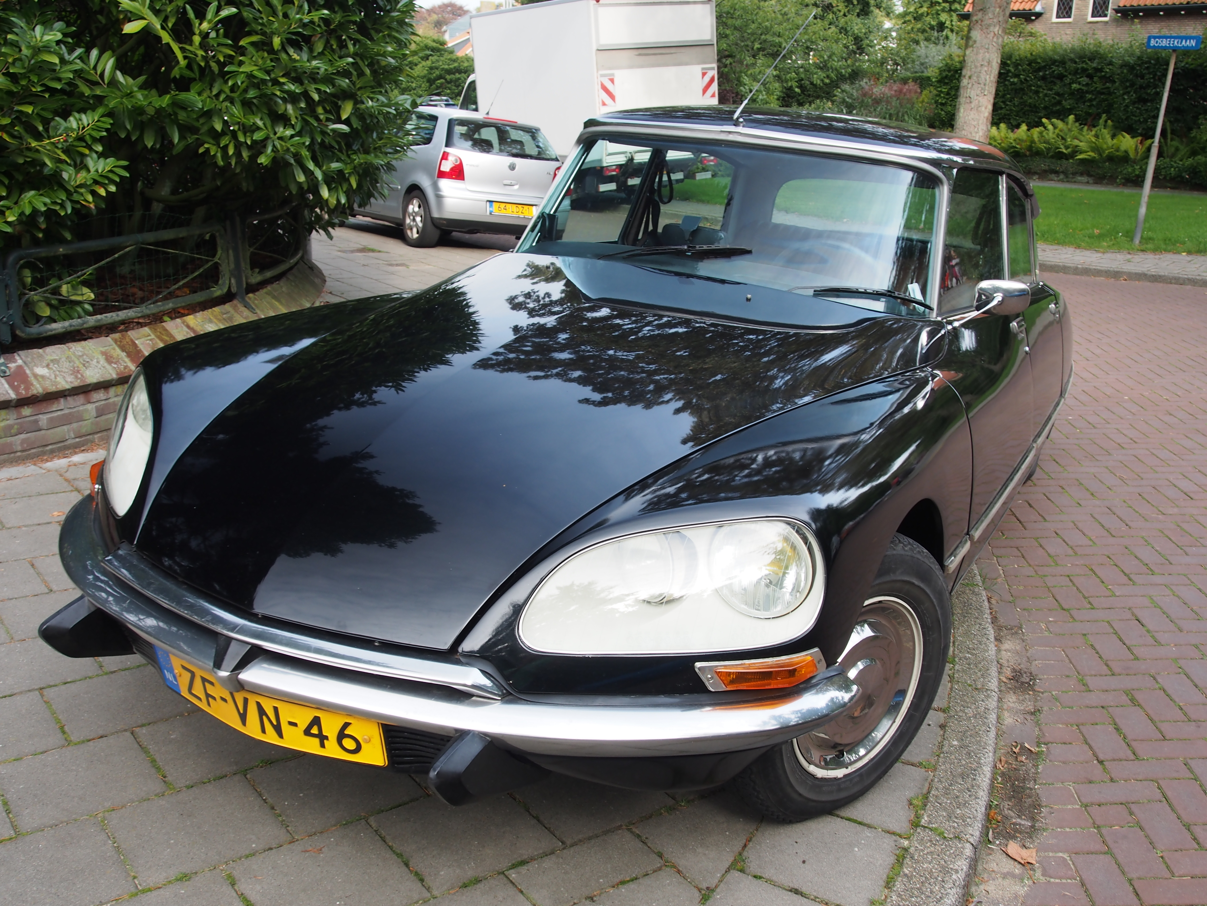 Some old cars gathering in Santpoort, The Netherlands.